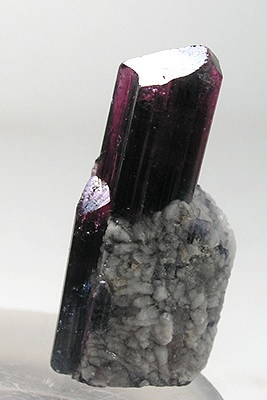 Liddicoatite Locality: Ambesabora pegmatite, Manapa pegmatite Field, Betafo District, Vakinankaratra Region, Antananarivo Province, Madagascar (Locality at ) Size: miniature, 3.1 x 1.2 x 0.9 cm Liddicoatite (var. of Tourmaline) Deep red crysatl overgrowing a darker core. Nice! These are all ANALYZED by Dr. Federico Pezzotta's laboratory and came from samples self-collected during their research in this area.